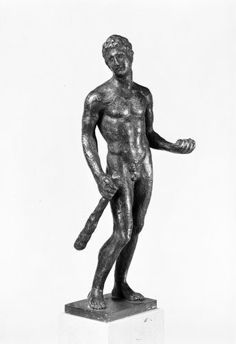 Hercules, zu erkennen an der Keule und den aus dem Garten der Hesperiden gestohlenen Äpfeln, ist hier als nackter Jüngling dargestellt. Er war der Schutzgott des Verkehrs, des Handels und Gewinns, weshalb er sich bei Kaufleuten großer Beliebtheit erfreute. Seiner Körperkraft wegen wurde er auch von Soldaten verehrt. Die Statuette ist in der Schausammlung "LegendäreMeisterWerke" im Alten Schloss ausgestellt.